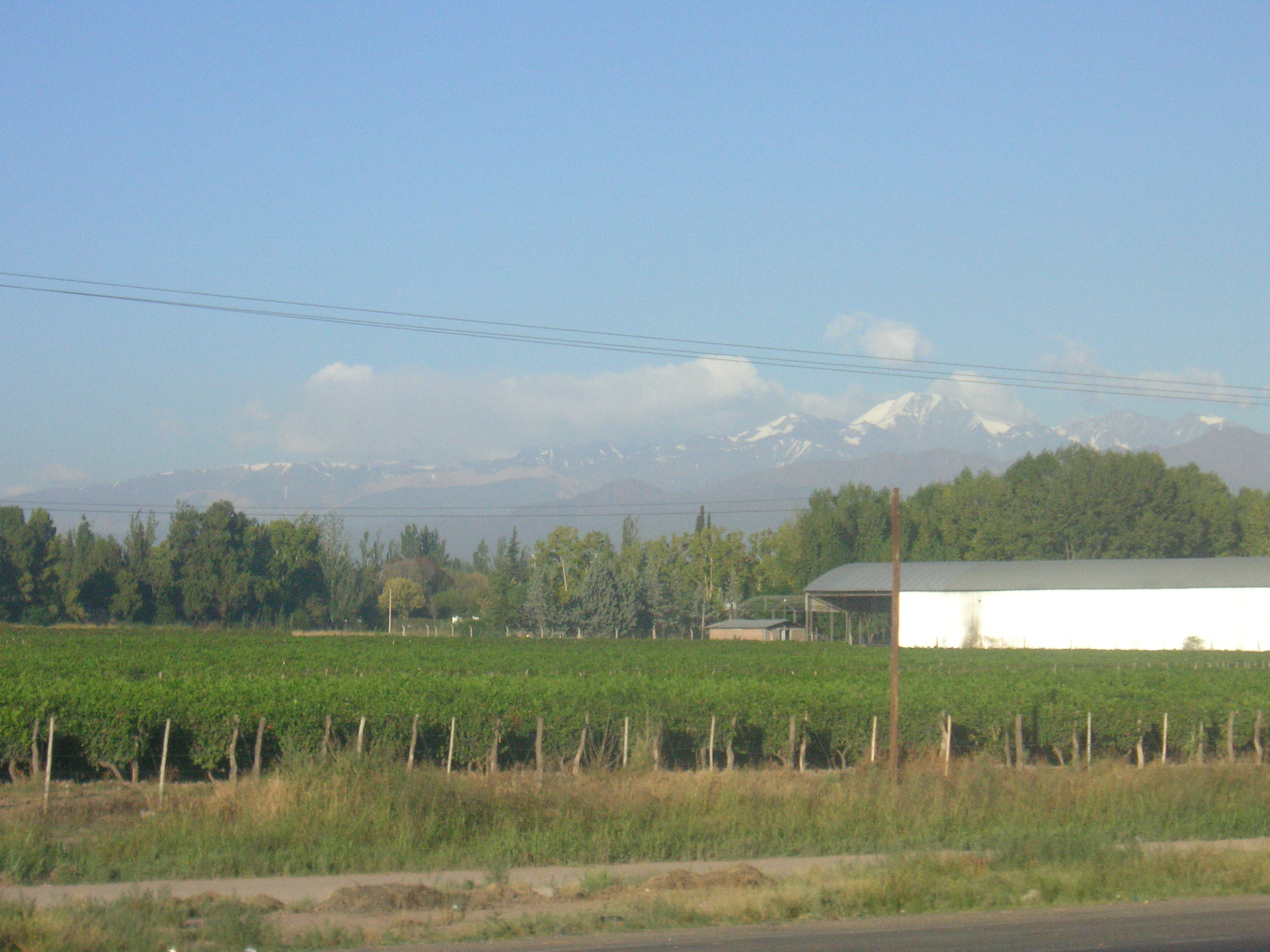 Vineyards in the Mendoza wine region of Argentina within views of the Andes